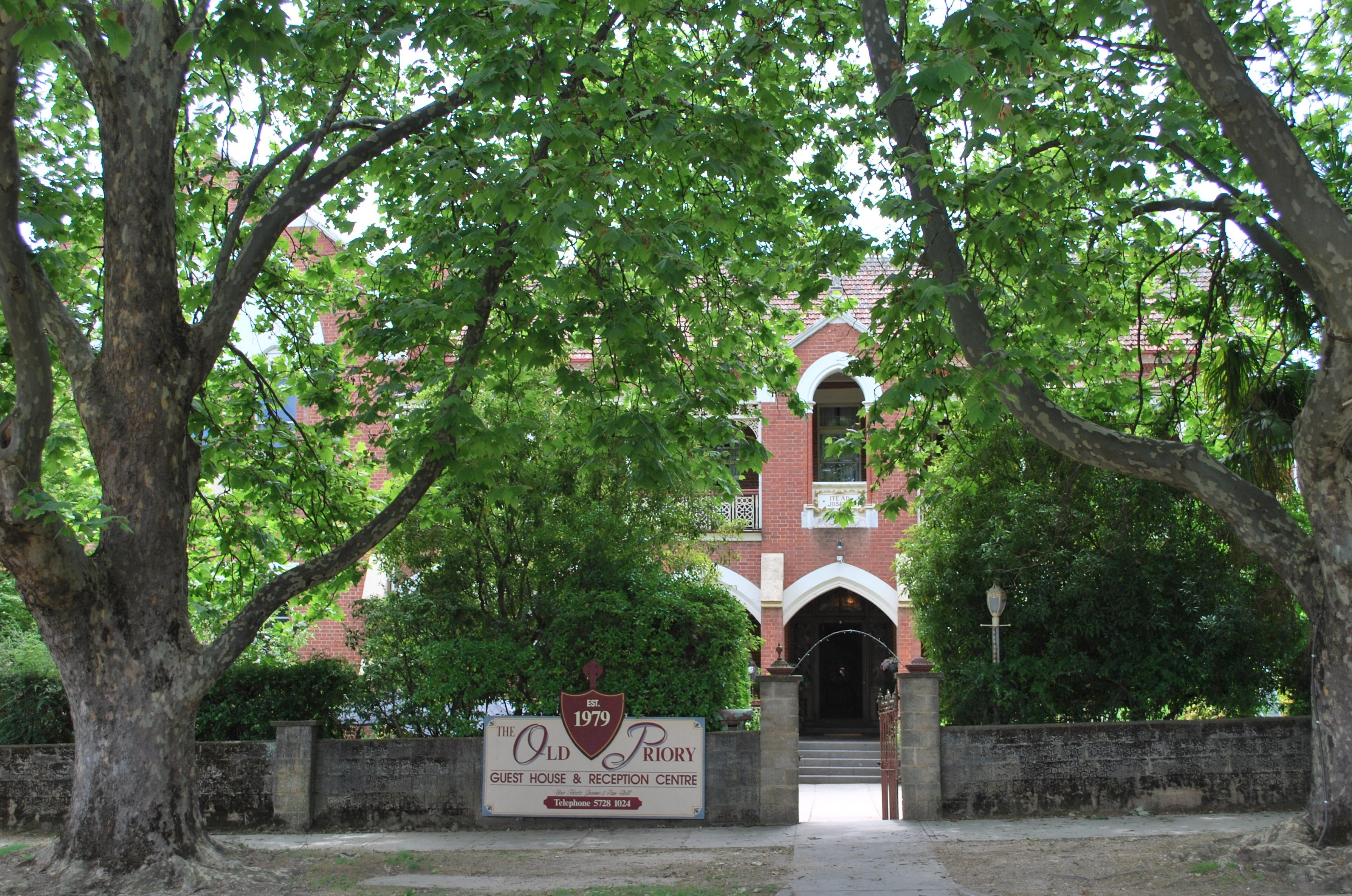 The "Old Priory", now a Bed and Breakfast, at Beechworth, Victoria